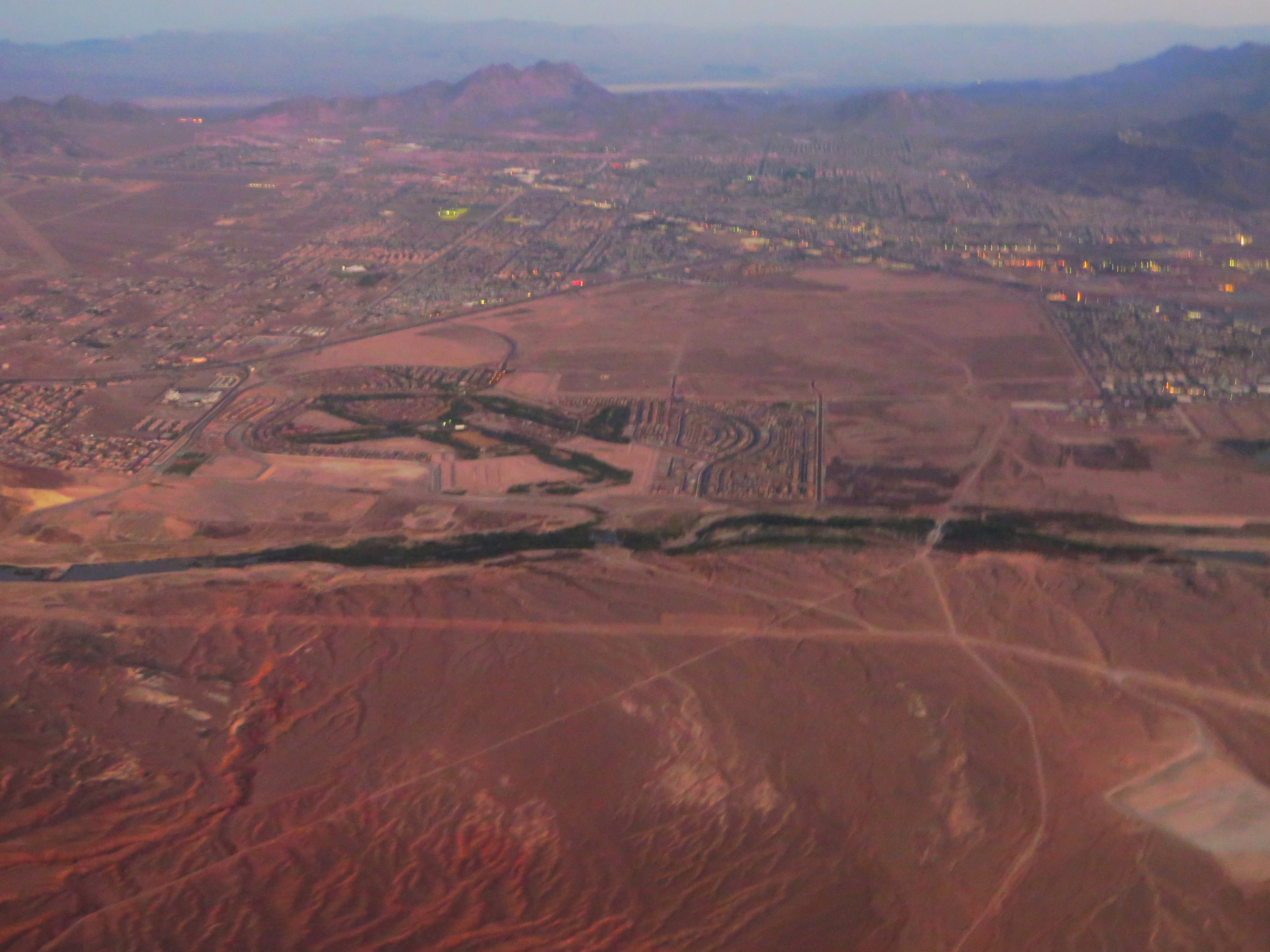 Henderson, officially the City of Henderson, Nevada, is a city in Clark County, Nevada. It is the second largest city in Nevada, after Las Vegas, with an estimated population of 257,729 in the 2010 census. The city is part of the Las Vegas metropolitan area, which spans the entire Las Vegas Valley. Henderson occupies the southeastern end of the valley, at an elevation of approximately 1,330 feet (410 m). In 2011, Forbes magazine ranked Henderson as America's second safest city. Analysts attribute this to Henderson being an affluent city, with a high median income and amenities catering to local residents. Henderson has also been named as "One of the Best Cities to Live in America" by Bloomberg Businessweek.